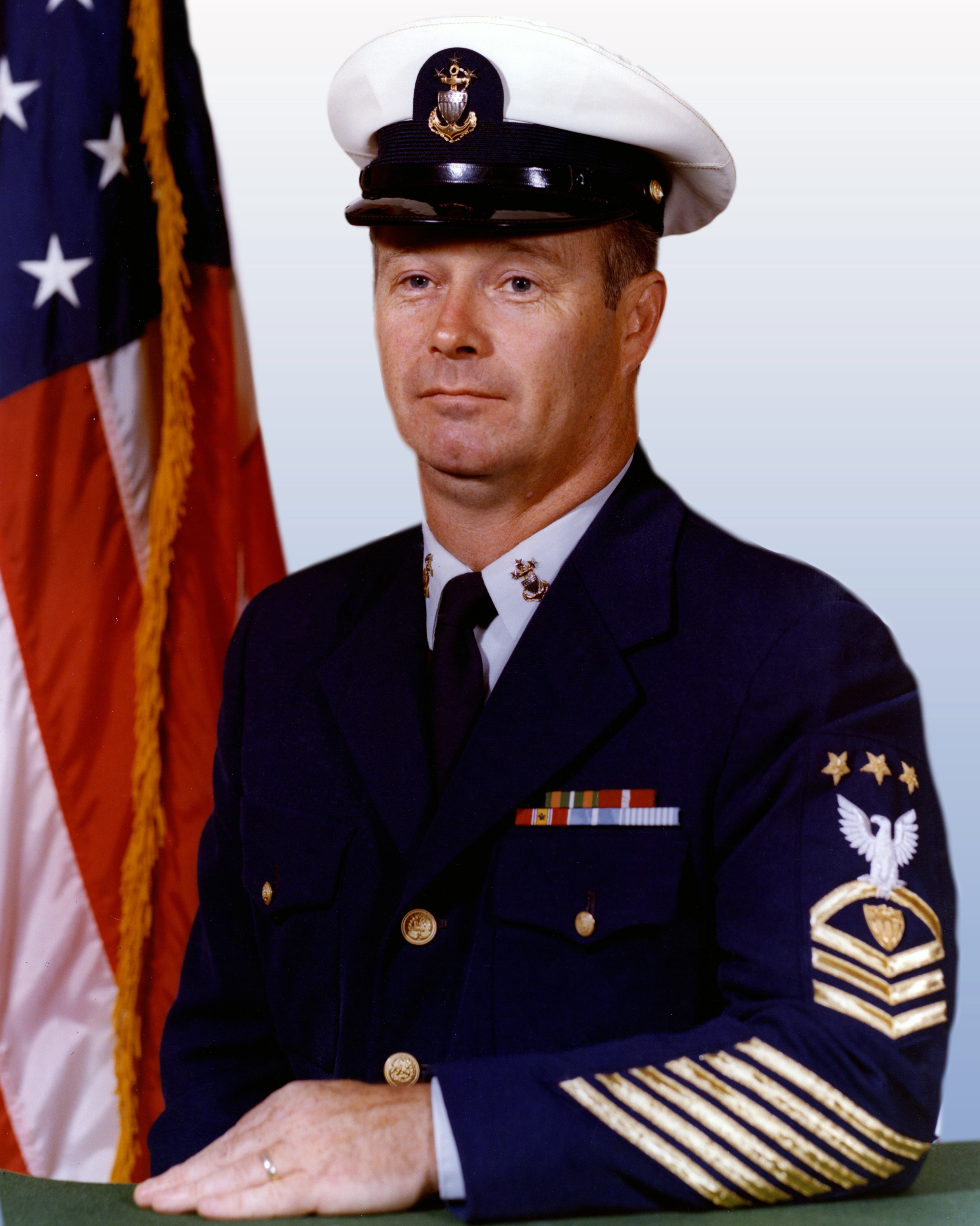 MCPOCG Phillip Smith